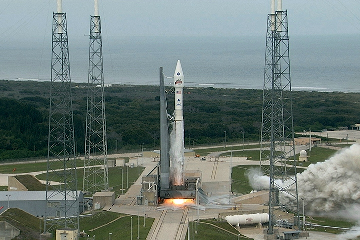 The dual Atlas V rocket engines roar to life on a United Launch Alliance Atlas V rocket at Cape Canaveral Air Force Station's Space Launch Complex 41. The launch vehicle will boost the Mars Atmosphere and Volatile Evolution, or MAVEN, spacecraft on a 10-month journey to the Red Planet. Liftoff was at 1:28 p.m. EST.